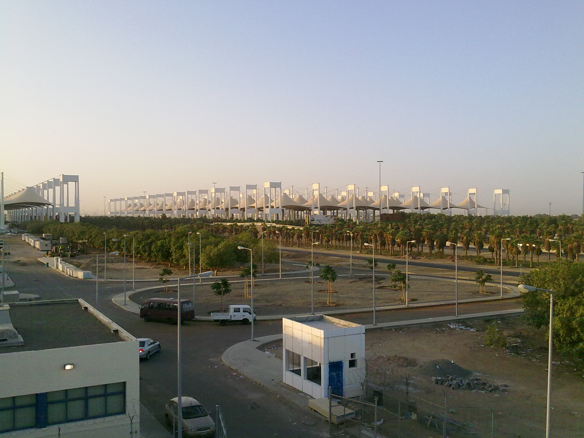 The Hajj terminal at King Abdulaziz International Airport, Jeddah, Saudi Arabia.